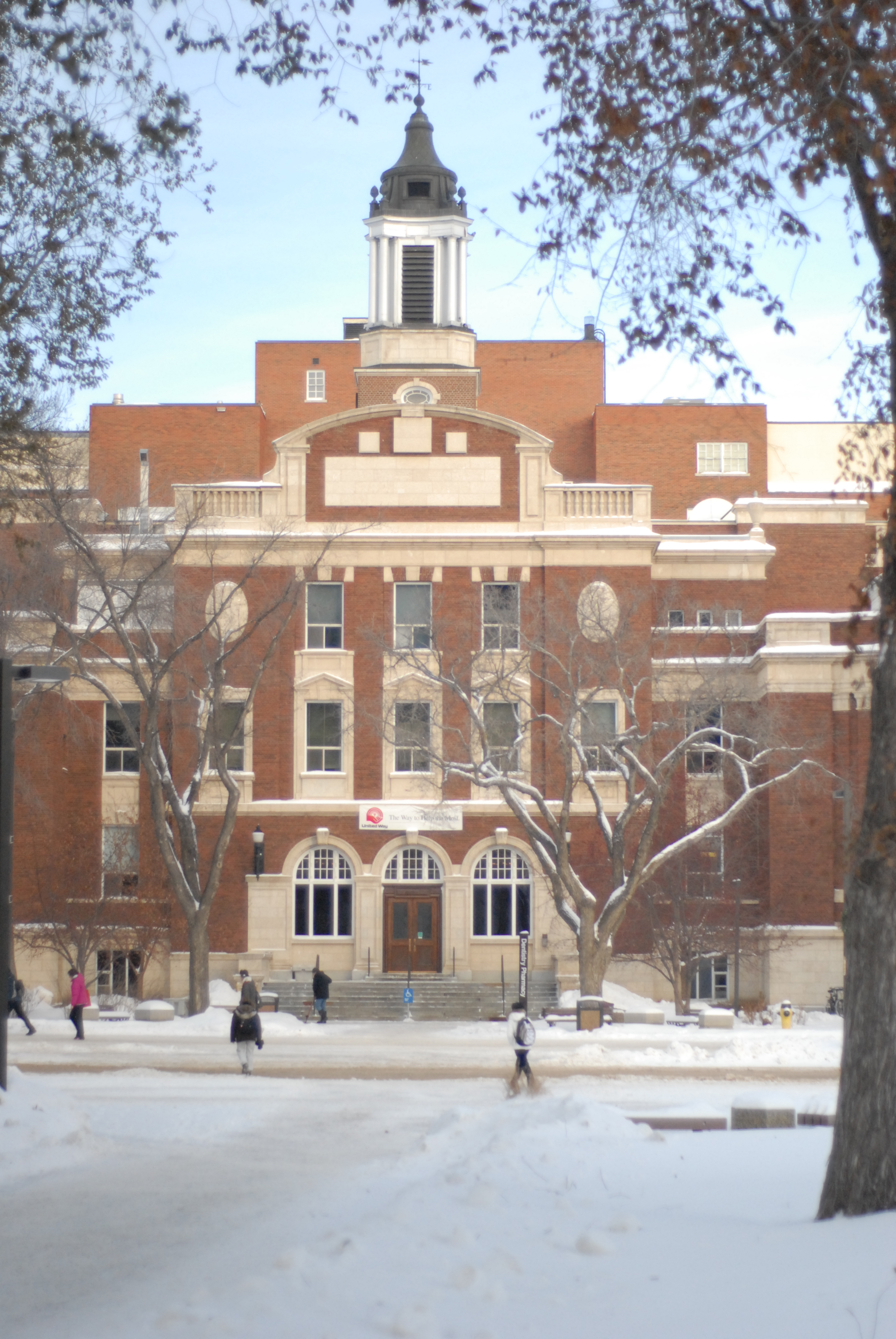 The Dentistry and Pharmacy building at the University of Alberta